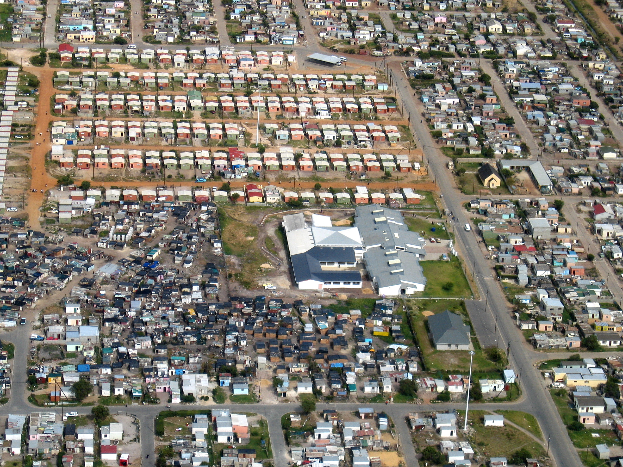 Areal view of Zwelihle